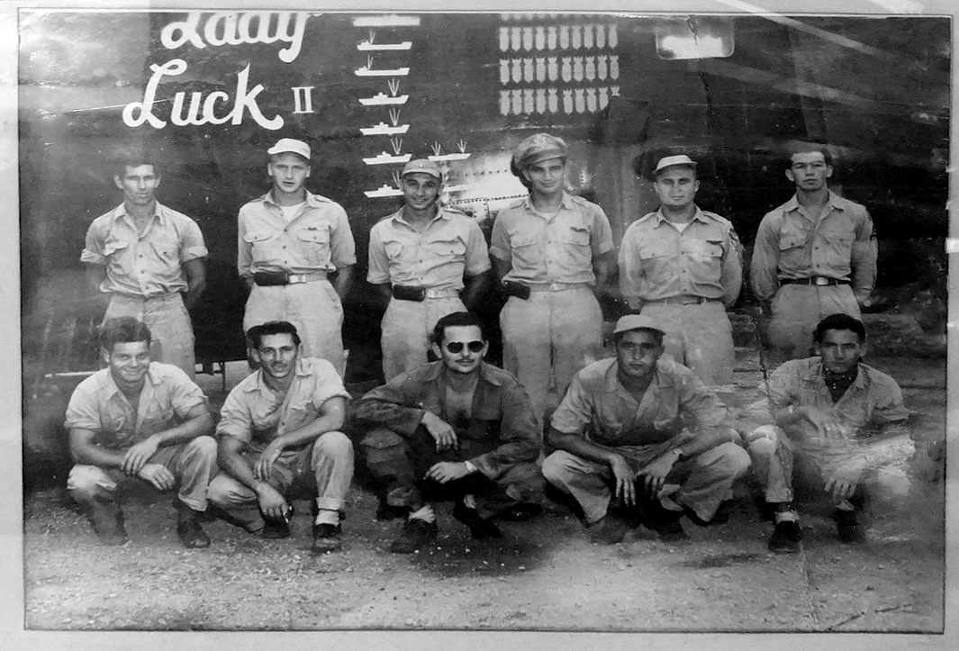 Memorial Hall for the U.S. Airmen Killed In Action During World War II is dedicated to the 11 U.S. Airmen who were killed when their B24 crashed into the mountain peak on Namhae returning from a bombing mission early in the morning of August 8, 1945, after being damaged by Japanese artillery, and to Kim Deok-hyeong, who single-handedly buried the 11 men, used his own funds to build a monument at the crash site, and establish the Memorial Hall where ceremonies are still held each year for the Airmen.